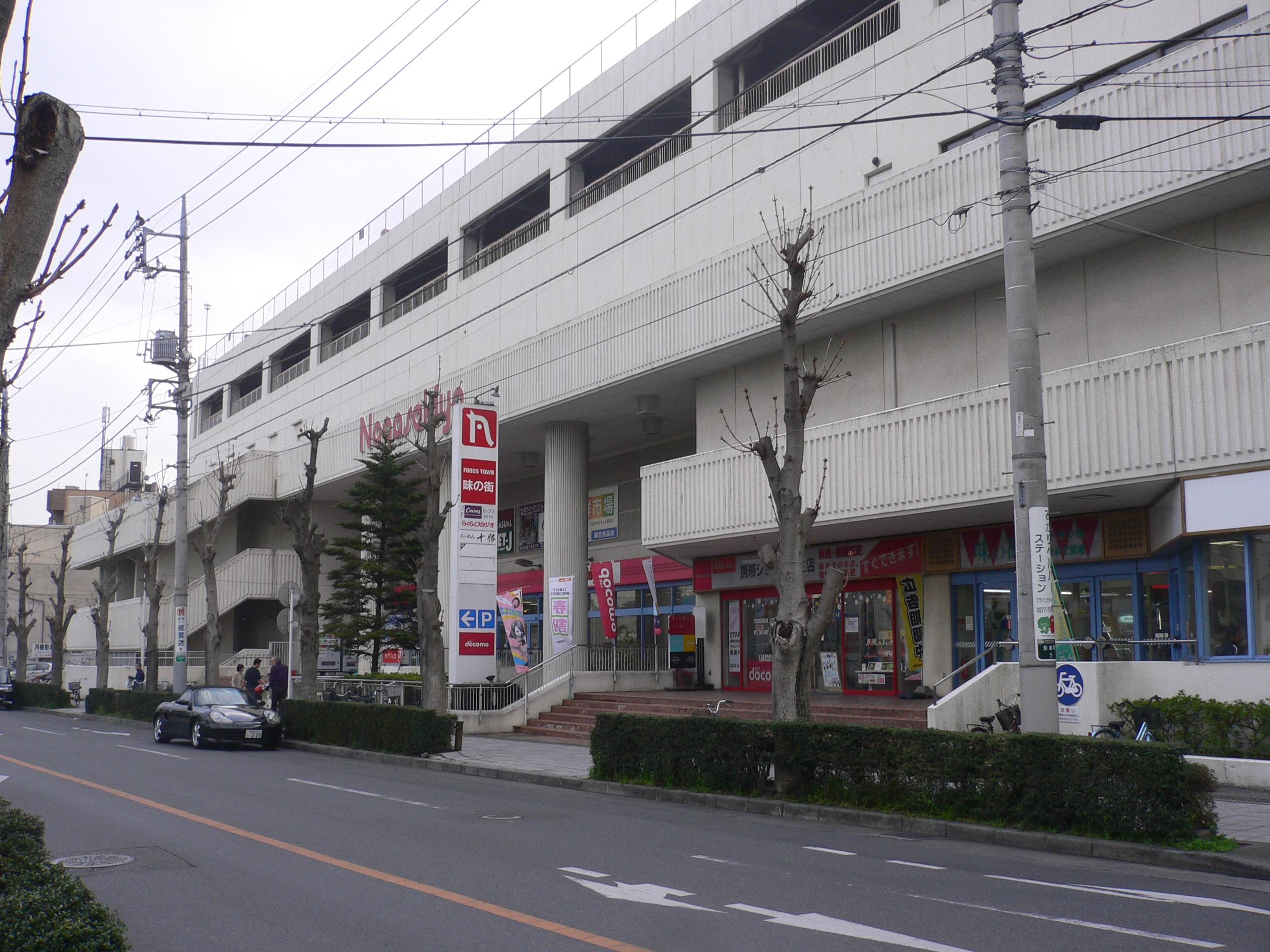 Nagasakiya Kiryu.